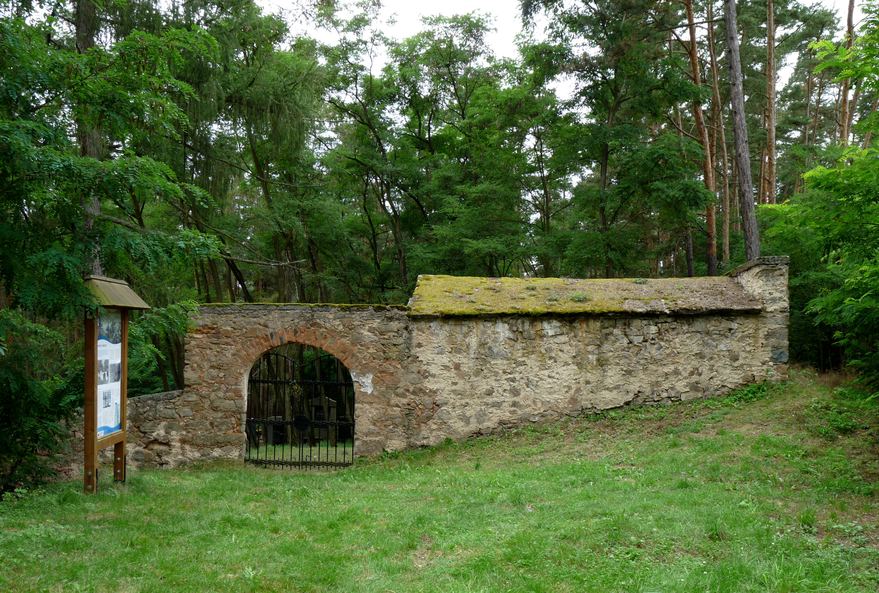 Gate of the Jewish cemetery in Drážkov, Příbram District, Central Bohemian Region, Czech Republic.